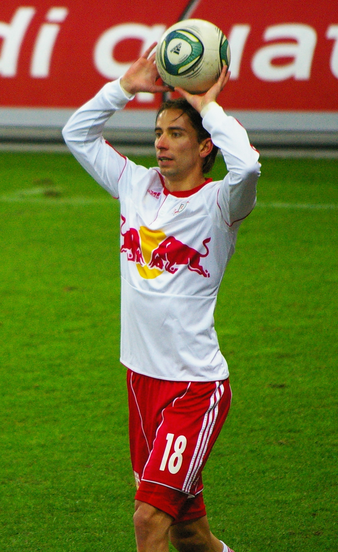 midfielder FC Red Bull salzburg